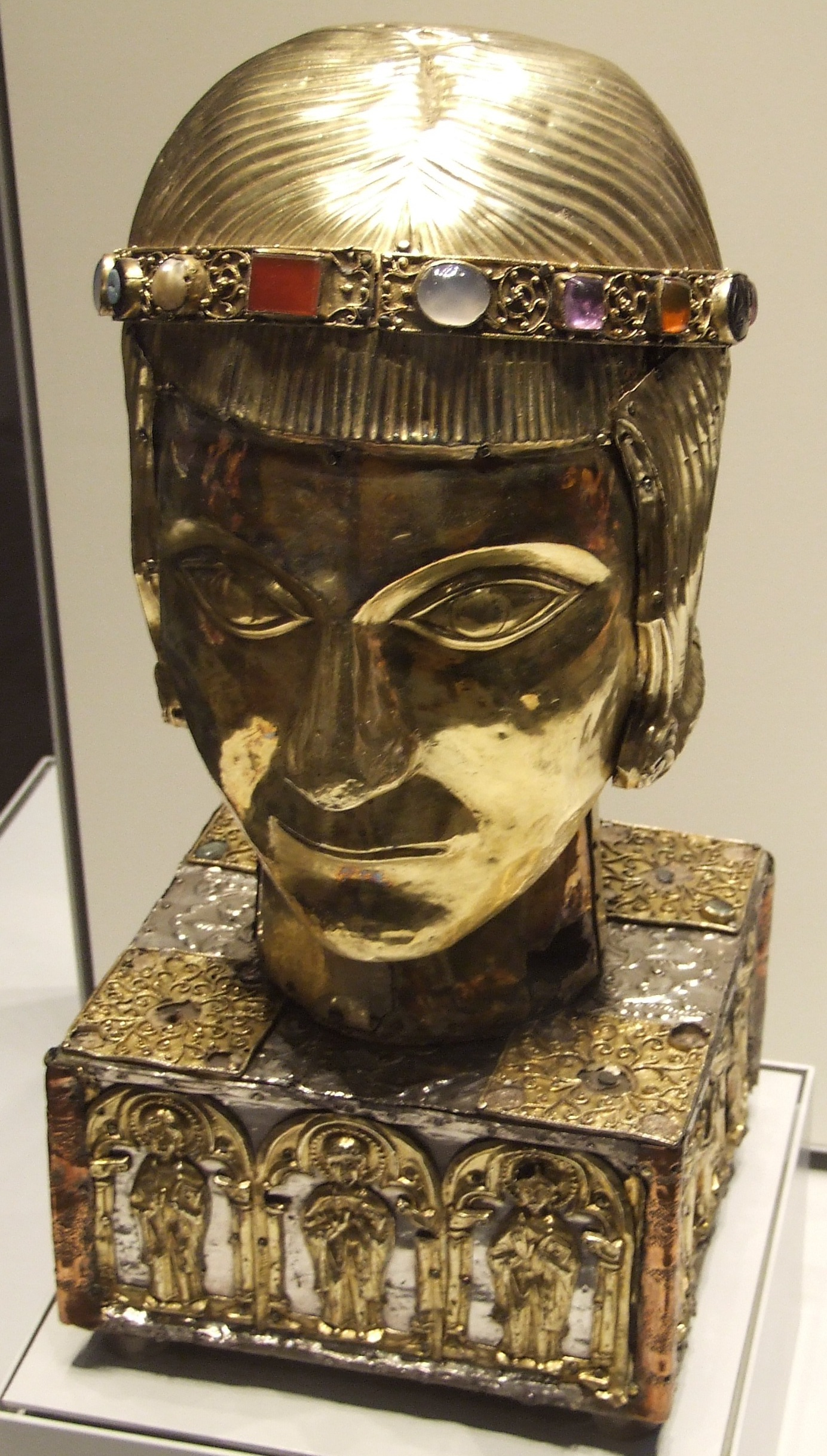 The Reliquary Head of St Eustace in the British Museum. Made from silver-gilt, sycamore, amethyst, carnelian, rock crystal, chalcedony, pearl, Roman glass. An inner sculpture made of sycamore wood was discovered during cleaning in 1956.